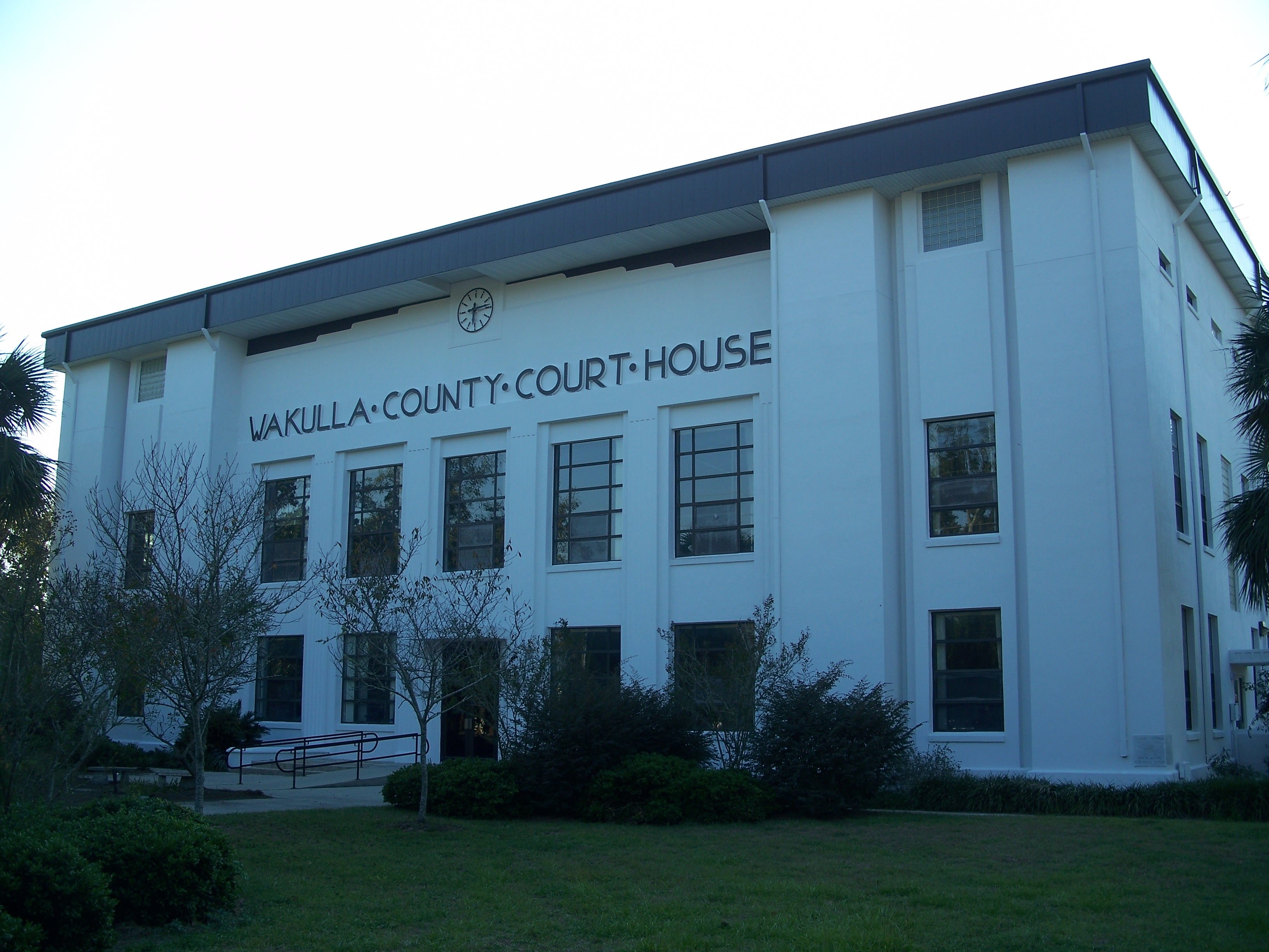 Crawfordville, Florida: Current courthouse